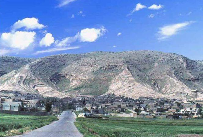 Village Alqosh in Iraq, near Mosul